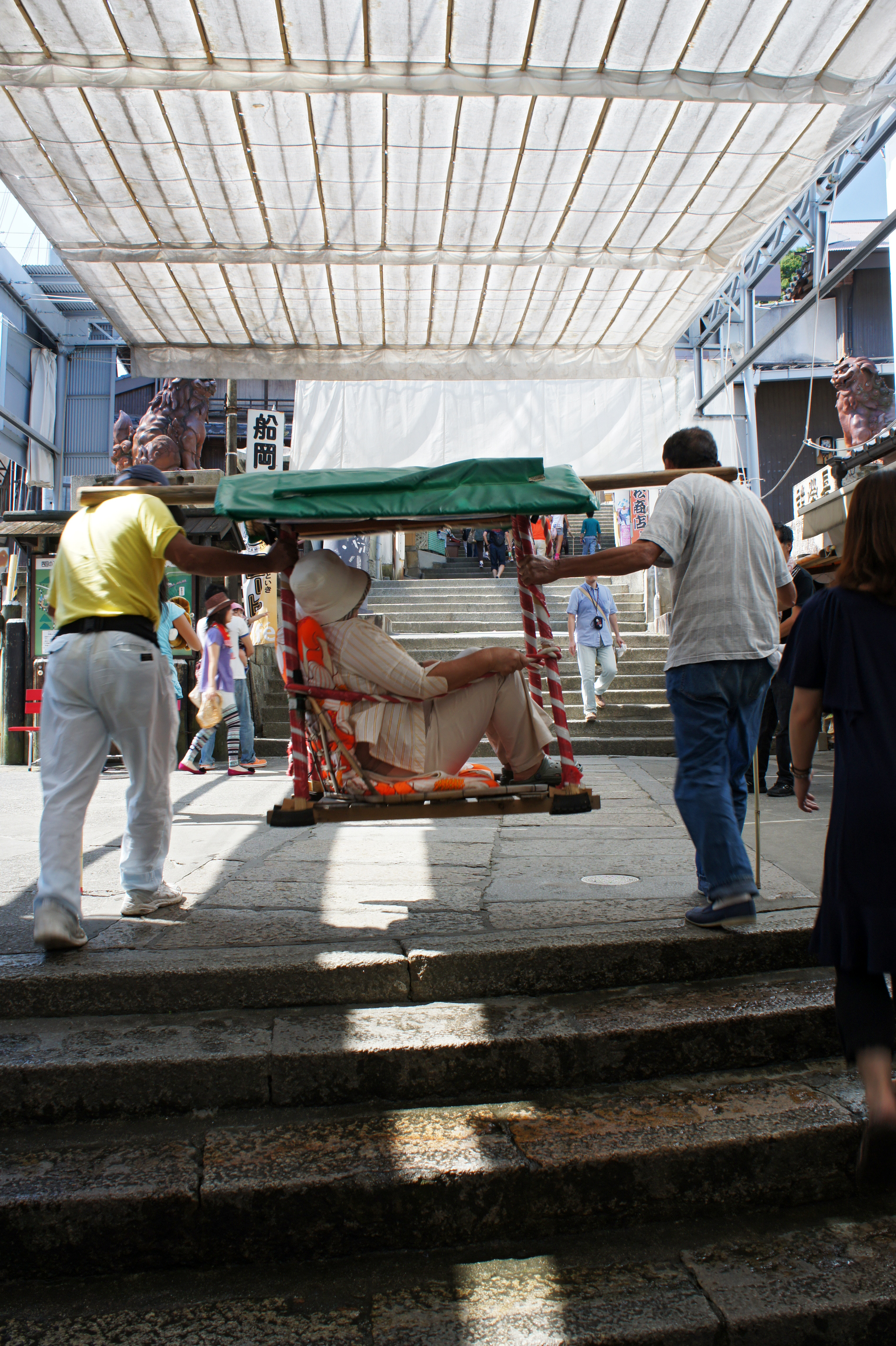 Omotesando of Kotohira Gu in Kotohira, Kagawa prefecture, Japan.